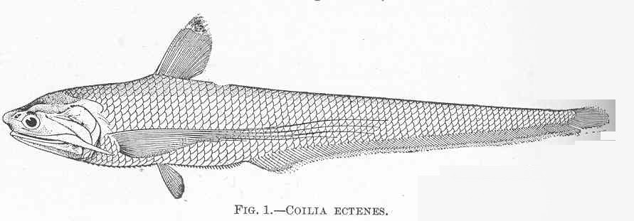 Coilia ectenes Subject: Coilia Tag: Fish